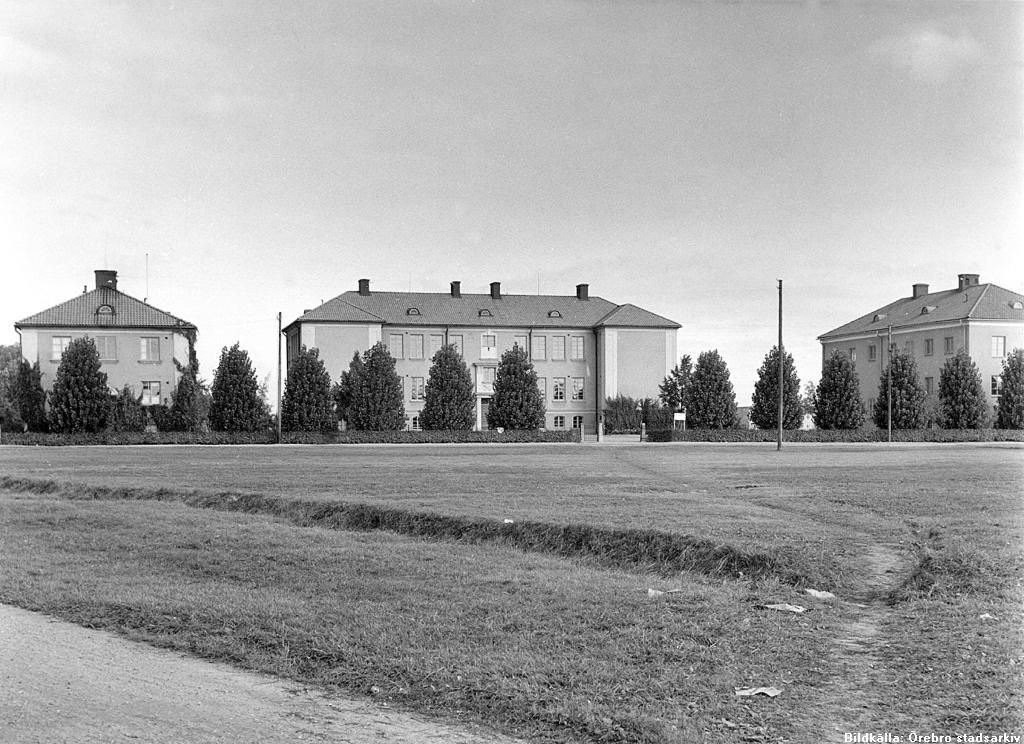 Holmen school, Örebro, sweden